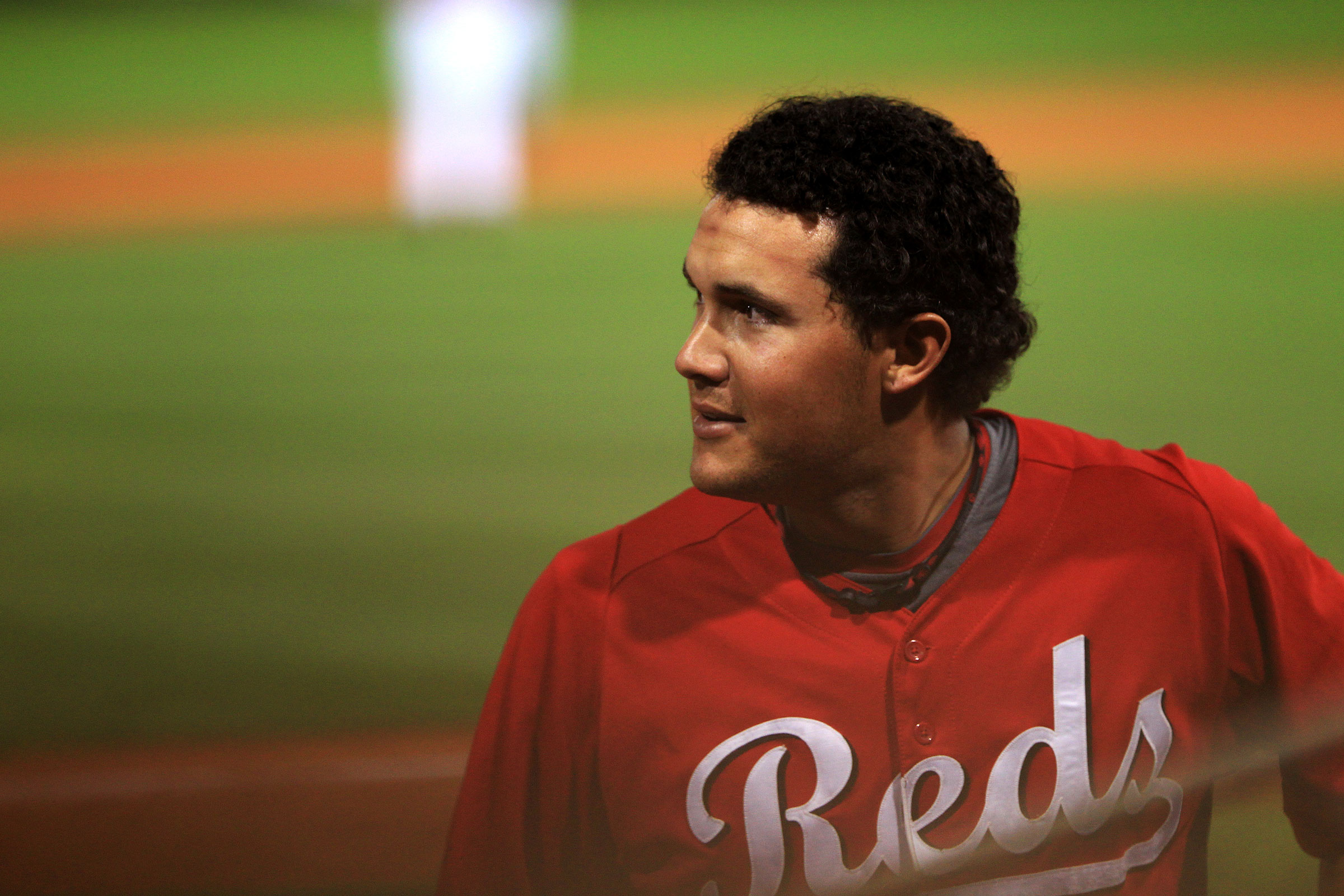 Kris Negron, March 16, 2011. Spring training in Goodyear, Arizona. 02:34, 3 April 2011 . . BubbaFan . . 2,400×1,600 (570 KB)